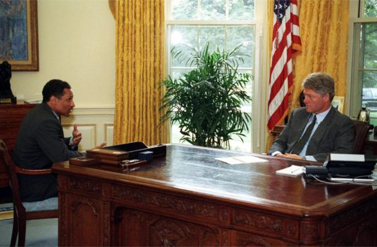 Photograph of President William J. Clinton Meeting with Secretary of Agriculture Mike Espy, 07/01/1993 Title: Photograph of President William J. Clinton Meeting with Secretary of Agriculture Mike Espy, 07/01/1993 Creator: President (1993-2001 : Clinton). White House Photograph Office. (01/20/1993 - 01/20/2001) (Most Recent) Types of Archival Materials: Photographs and other Graphic Materials Contacts: William J. Clinton Library (NLWJC), 1200 President Clinton Avenue, Little Rock, AR 72201. Phone: 501-244-2877; Fax: 501-244-2881; Production Dates: 07/01/1993 From: Series: Photographs Relating to the Clinton Administration, compiled 01/20/1993 - 01/20/2001 Collection WJC-WHPO: Photographs of the White House Photograph Office (Clinton Administration), 01/20/1993 - 01/20/2001 Persistent URL: Access Restriction(s): Unrestricted Use Restriction(s): Unrestricted